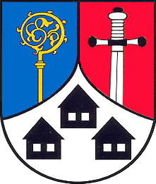 Coat of arms of Hausen